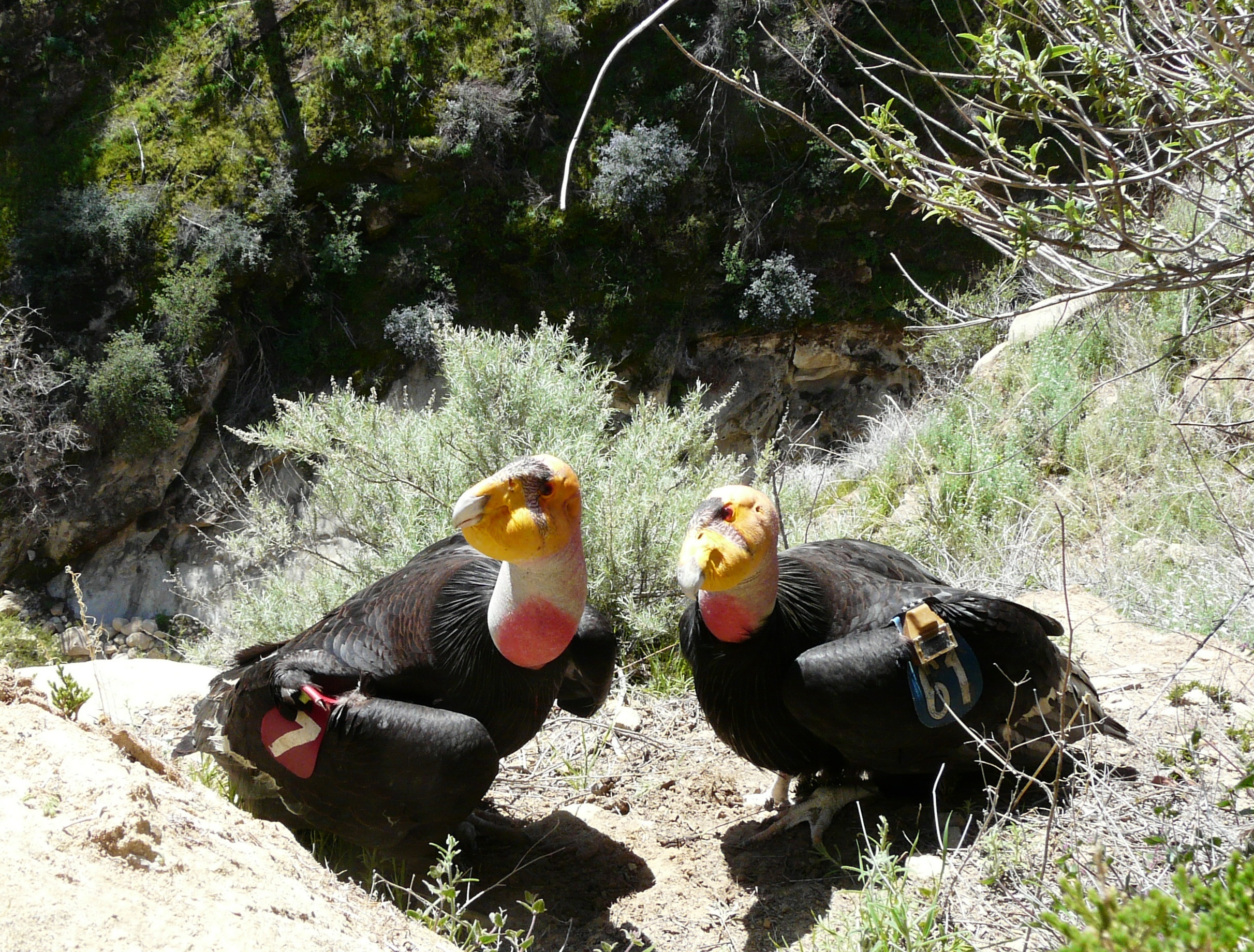 A pair of California Condors outside thier nest cave on the side of a cliff near Hopper Mountain National Wildlife Refuge, California, USA.